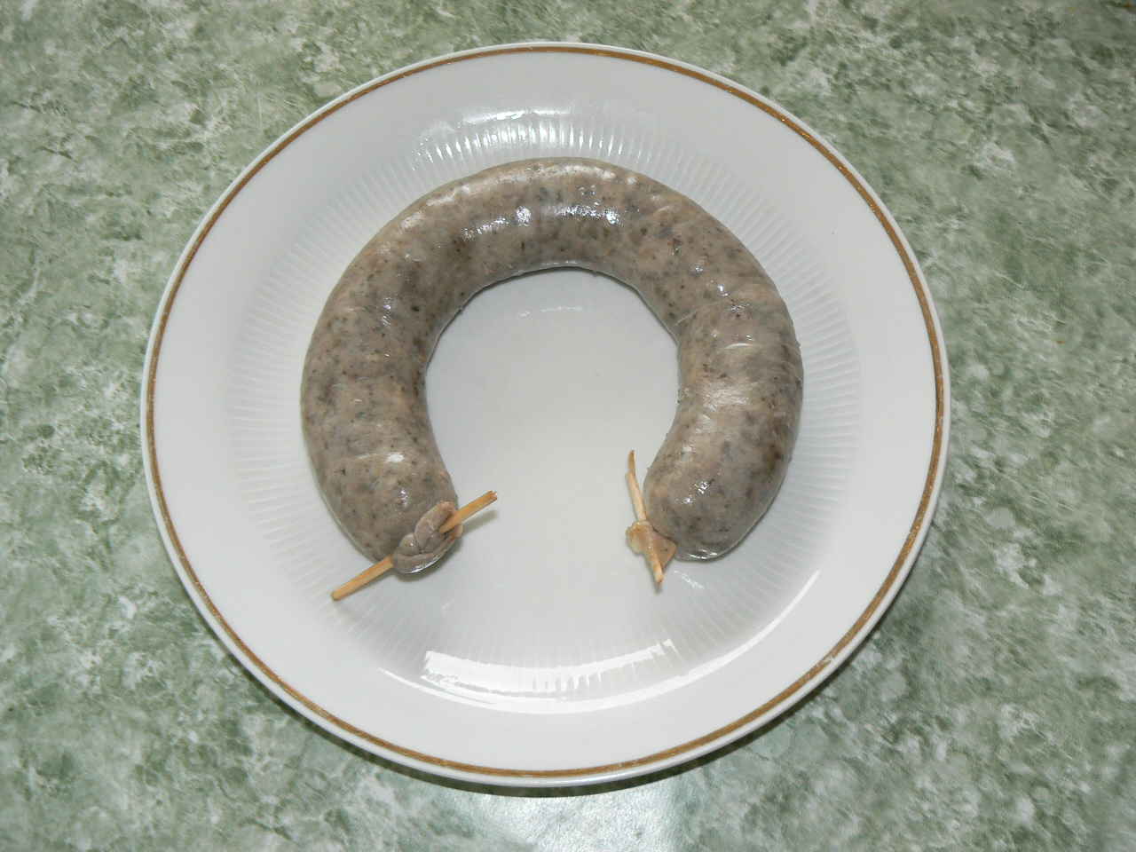 Jitrnice (a kind of sausage, made in Bohemia and Moravia)